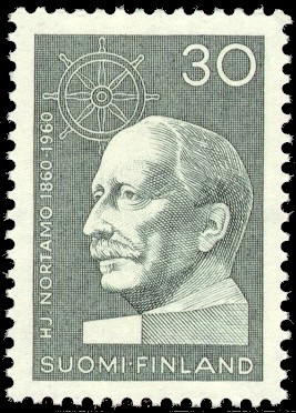 Postage stamp depicting the Finnish writer and medical doctor Hj. Nortamo